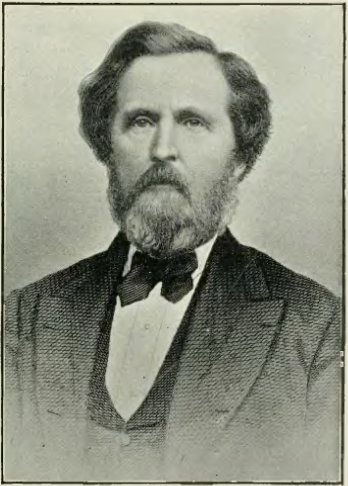 Portrait in History of Iowa From the Earliest Times to the Beginning of the Twentieth Century